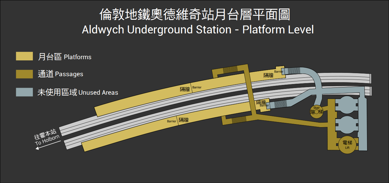 (Traditional Chinese version) Platform layout of Aldwych tube station based on information in original architect's drawings.